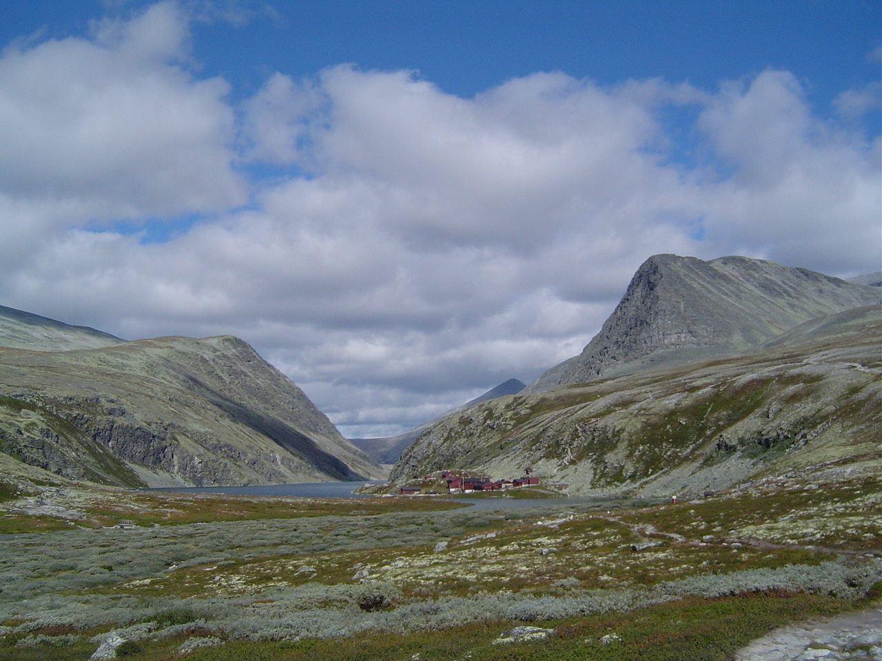 Rondane national park, the Rondvassbu cabin near the Rondvatnet Lake